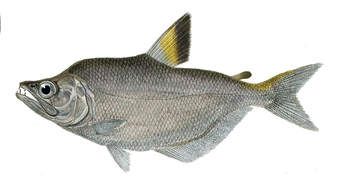 « Hydrocyon argenteum » = Cynopotamus argenteus